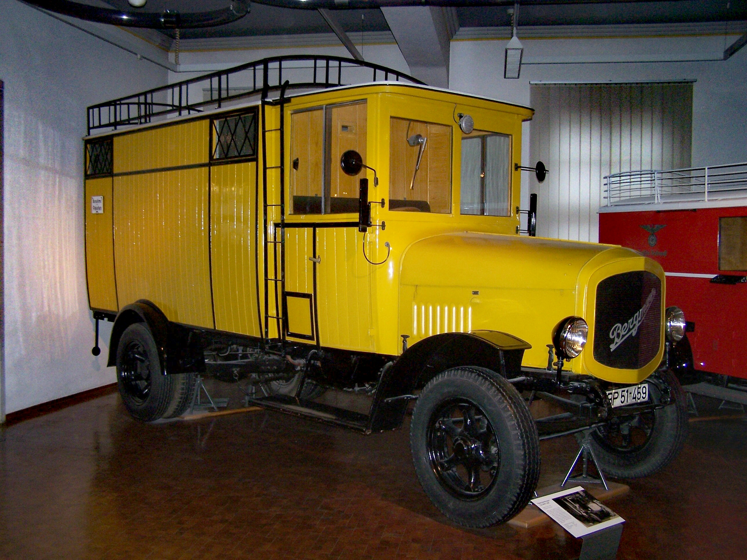 Bergmann BEM 2500 parcel delivery van with electric motor, built between 1922 and 1927, engine power 20 hp, speed 20 km/h, payload 2,5 t, in the Museum for communication in Nuremberg